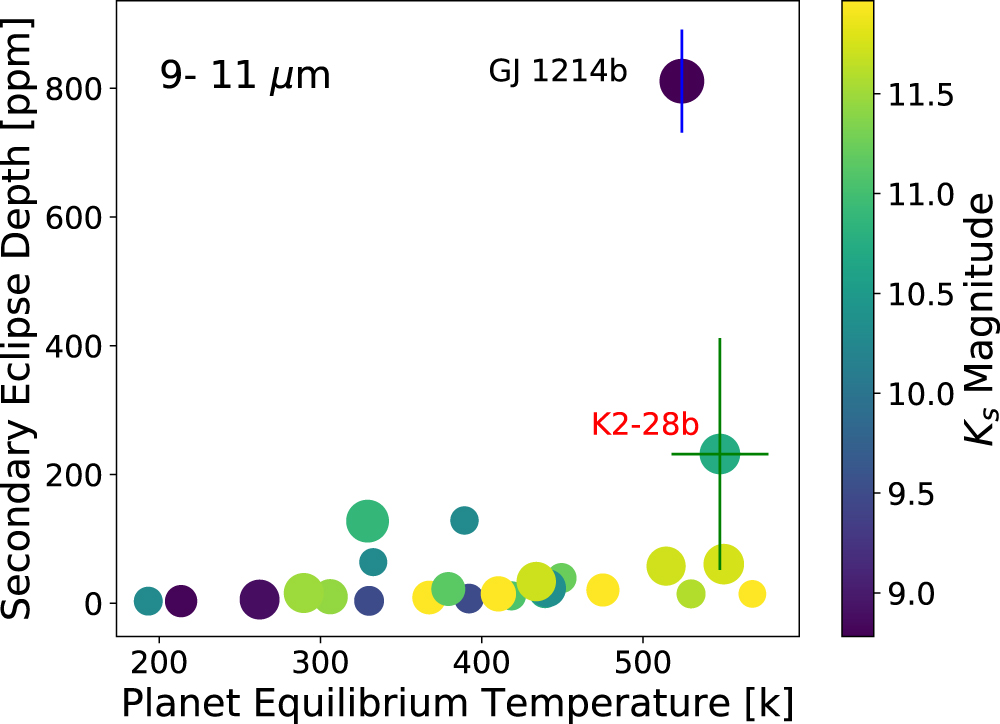 Comparison of secondary eclipse depths of selected planets